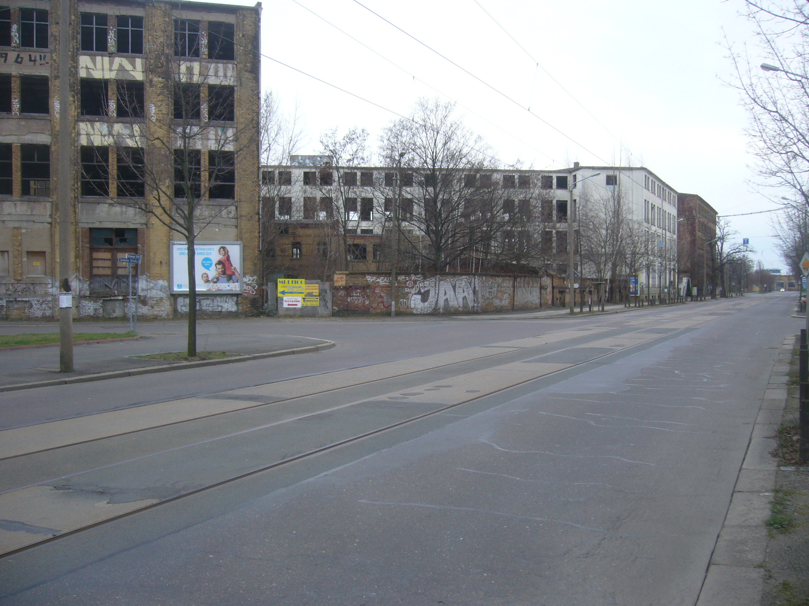 Wittenberger Straße in Eutritzsch, Leipzig, Deutschland.